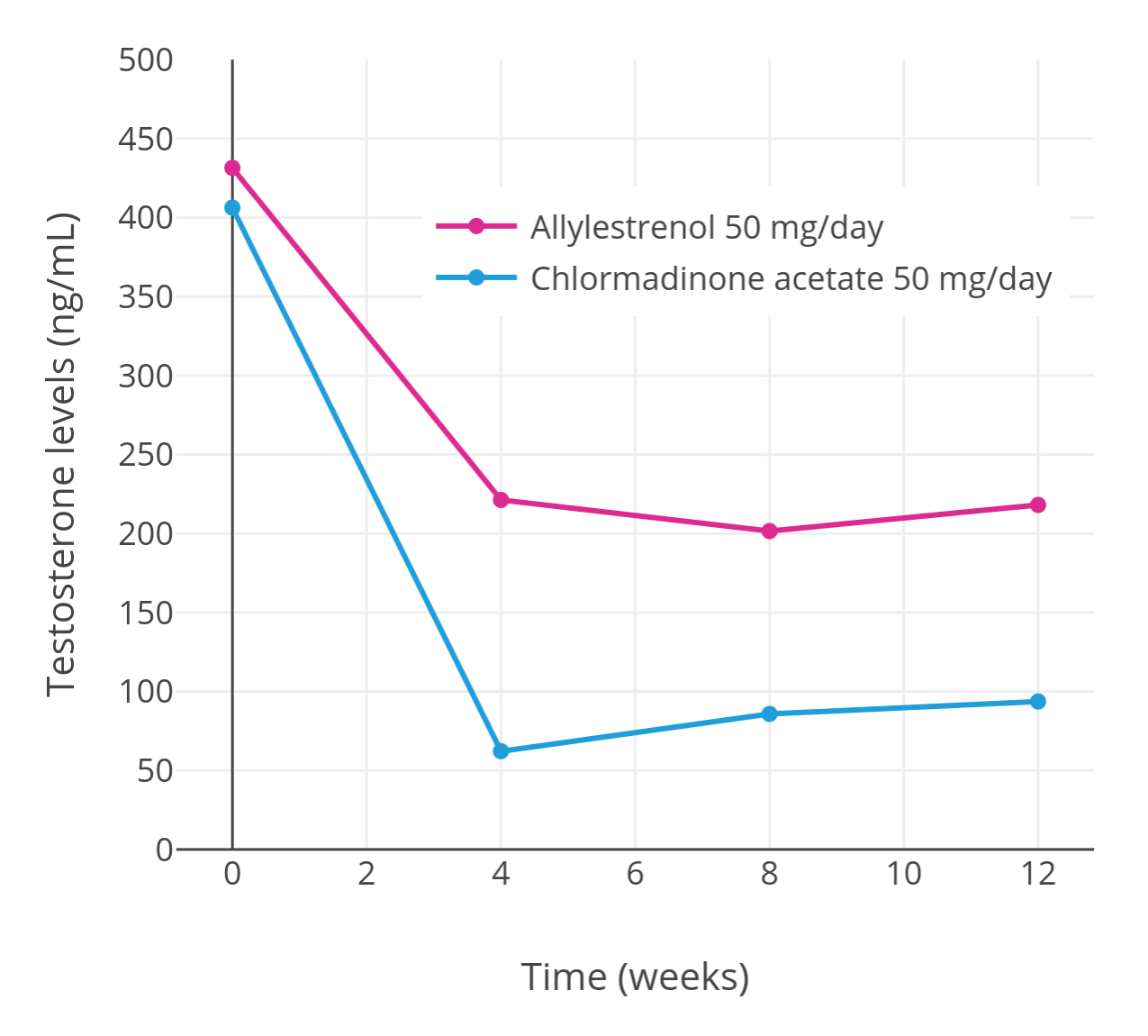 I made this, anyone can use it. Created from source material using WebPlotDigitizer and Plotly. Source of the values: (February 1990). "[Effects of anti-androgens on sexual function. Double-blind comparative studies on allylestrenol and chlormadinone acetate Part I: Nocturnal penile tumescence monitoring]". Hinyokika Kiyo 36 (2): 213–26. PMID 1693037.